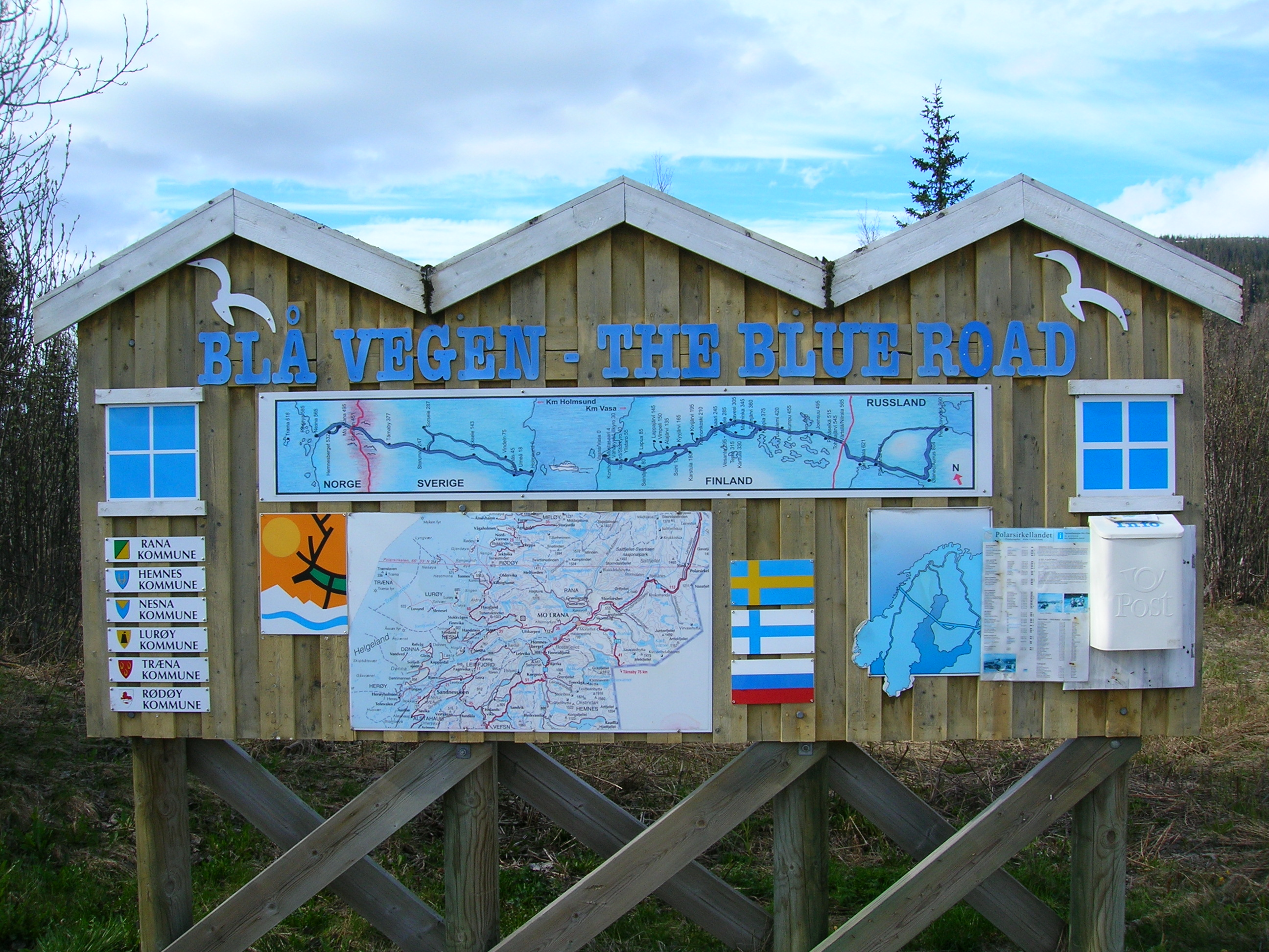 Information about the Blue road (Blå vägen) on Gruben, Rana municipality, Nordland, Norway. The Blue road connect together Finland, Sweden and Norway, and the 6 Norwegian municipalities Rana, Hemnes, Nesna, Lurøy, Rødøy, and Træna. Photo May 14, 2007 with a Nikon Coolpix 5600 5,1 Megapixel camera.